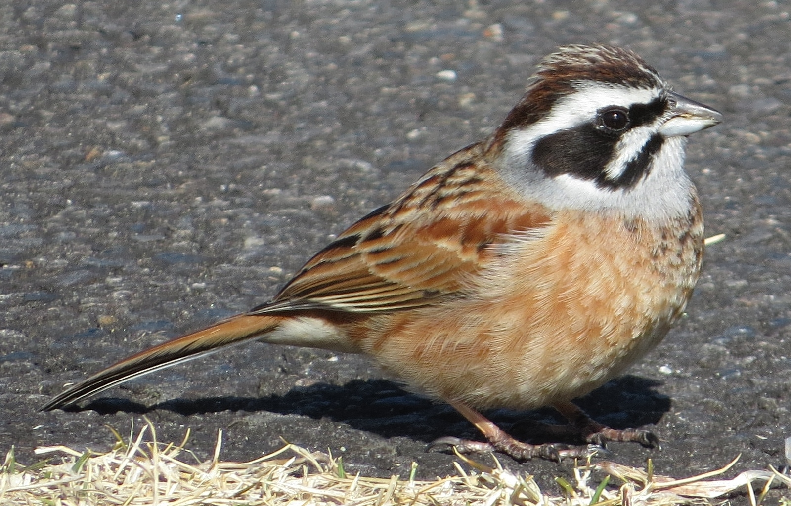 Emberiza cioides (Meadow Bunting), male eating seed in Japan.